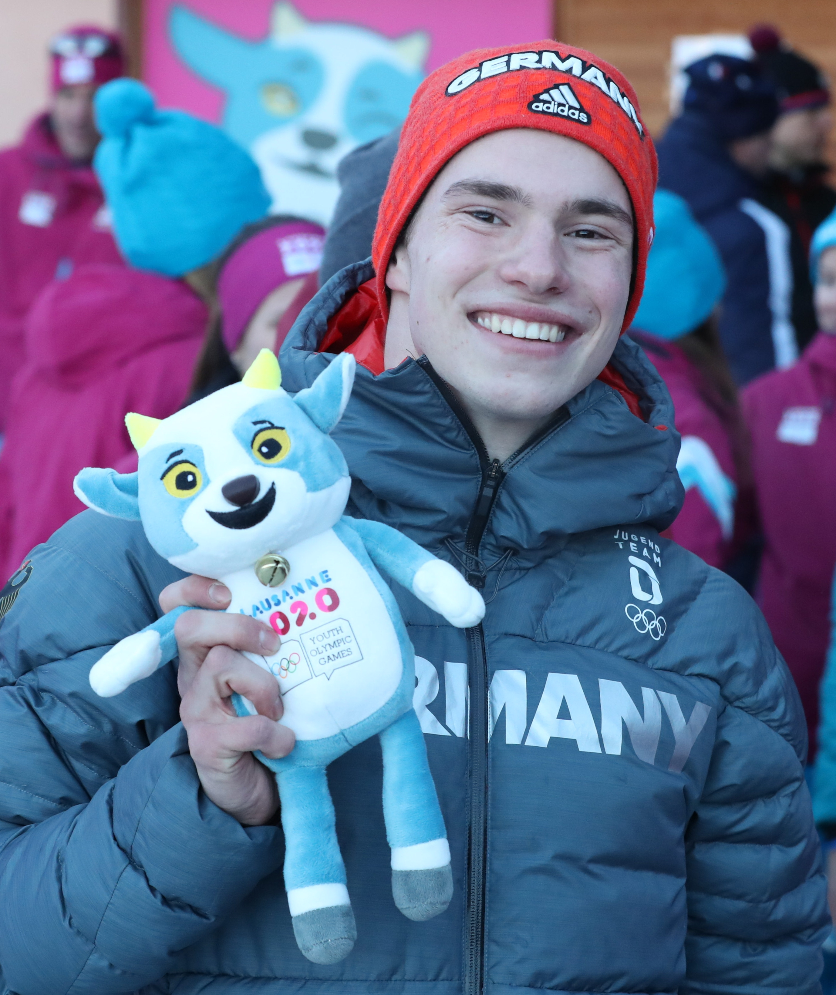 Mascot Ceremony Men's Skeleton at the 2020 Winter Youth Olympics in Lausanne